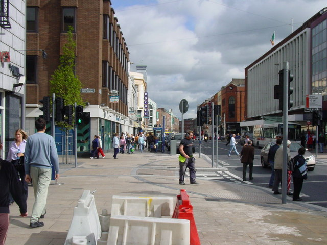 Limerick - O'Connell Street looking north east Limerick's main shopping street is O'Connell Street.